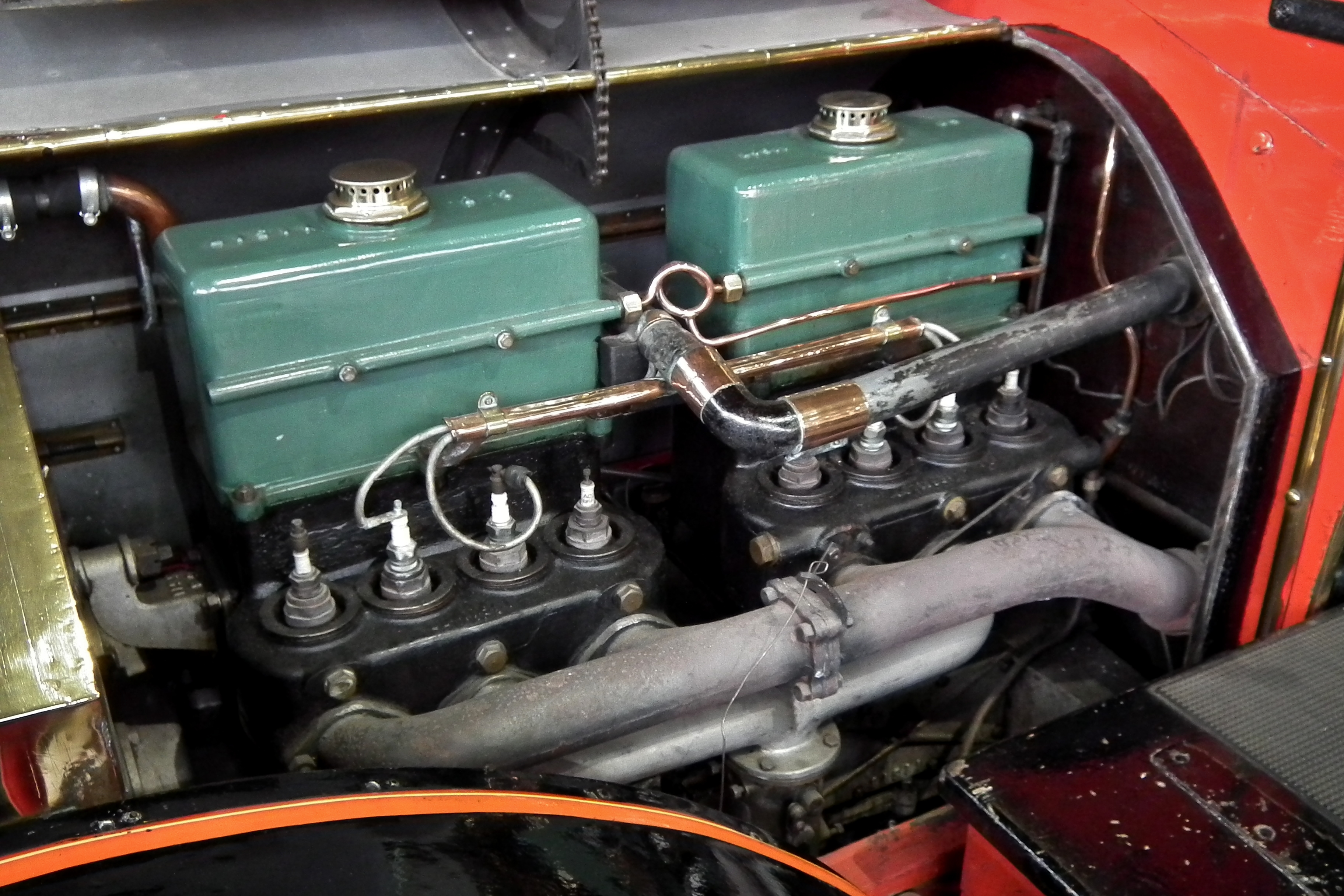 1907 Gobron Brillie Fire Engine. Taken at the National Motor Museum in Beaulieu, Hampshire, England.